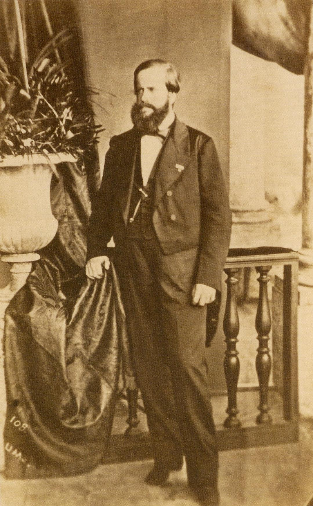 Pedro II of Brazil, 1861.